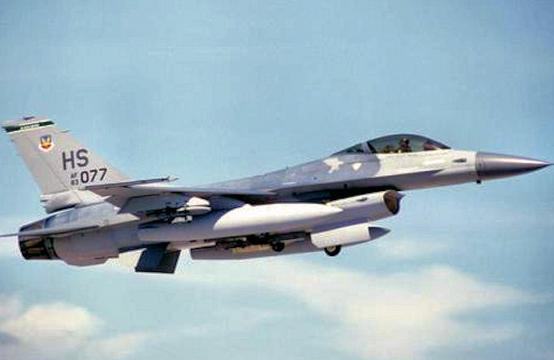 USAF F-16A block 15 #83-1077 taking off during the 'Long Rifle III' competition at McDill AFB on August 28th, 1987. The semi-annual air-to-ground gunnery competition tests tactical air crews` abilities to plan and execute long-range missions, execute attacks on first-look targets and accurately deliver ordnance. Retired to AMARC as FG0303 Dec 14, 1994. To Portugal AF in 1999 as FAP 15134 under Peace Atlantis II [Photo by SRA David Holt]